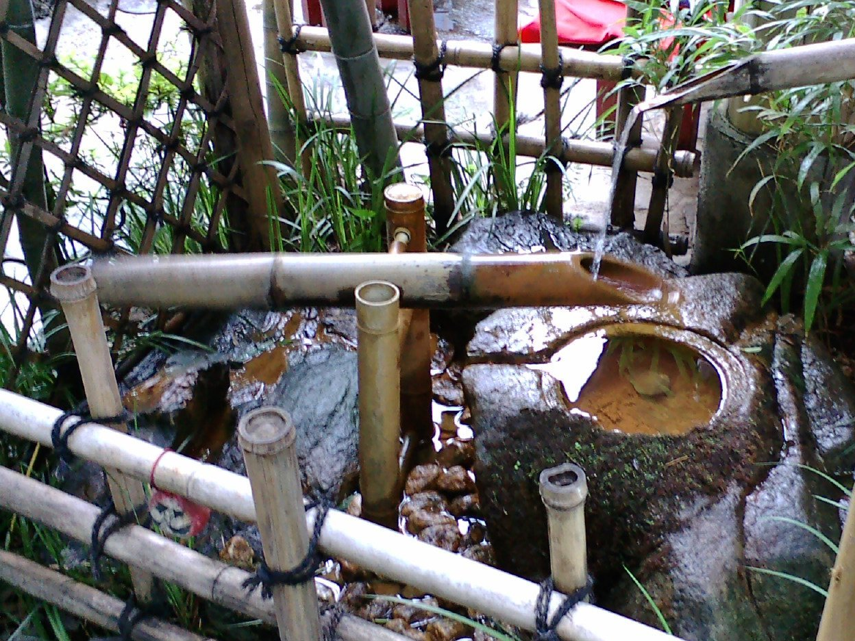 General Shishi odoshi, kind of traditional instrument, decorates Japanese garden, breaking quietness by the sound of seesaw movement with one end of bamboo hit the stone.